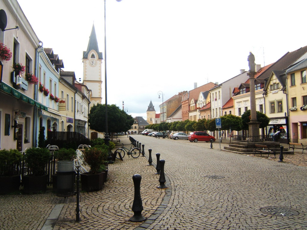 The market place of Ostrov, Karlovy Vary Region, Czech Republic. The tower on the left belongs to the city hall. Visible on the right is a Marian column.